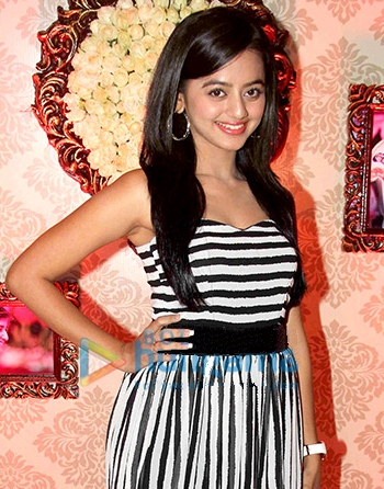 Helly Shah at Rashmi Sharma's birthday